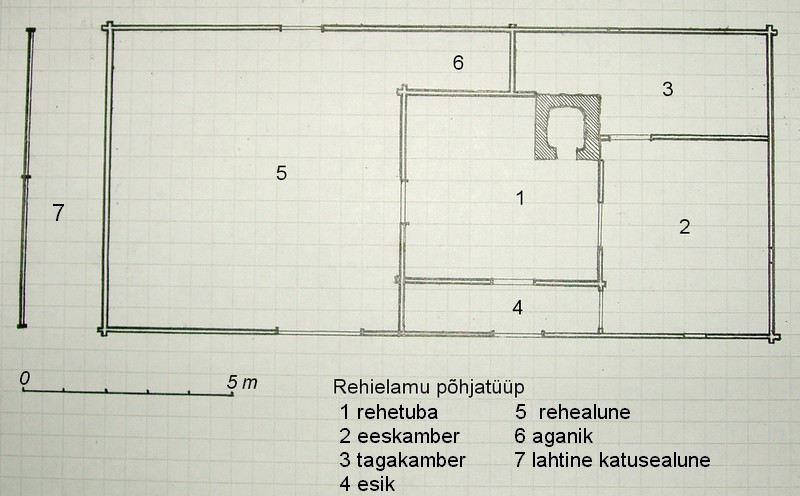 Rehielamu põhjatüüp Northern type of Estonian traditional farmhouse - 1. is the "kiln" [used to dry grain during the wet autumn, and for heating and cooking in winter], 2 and 3 are living space, 4 is an entryway, 5 is the barn.